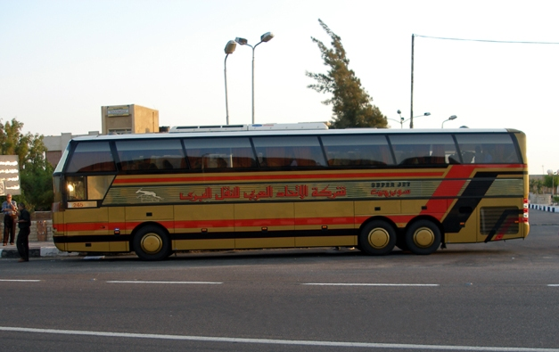 Superjet bus